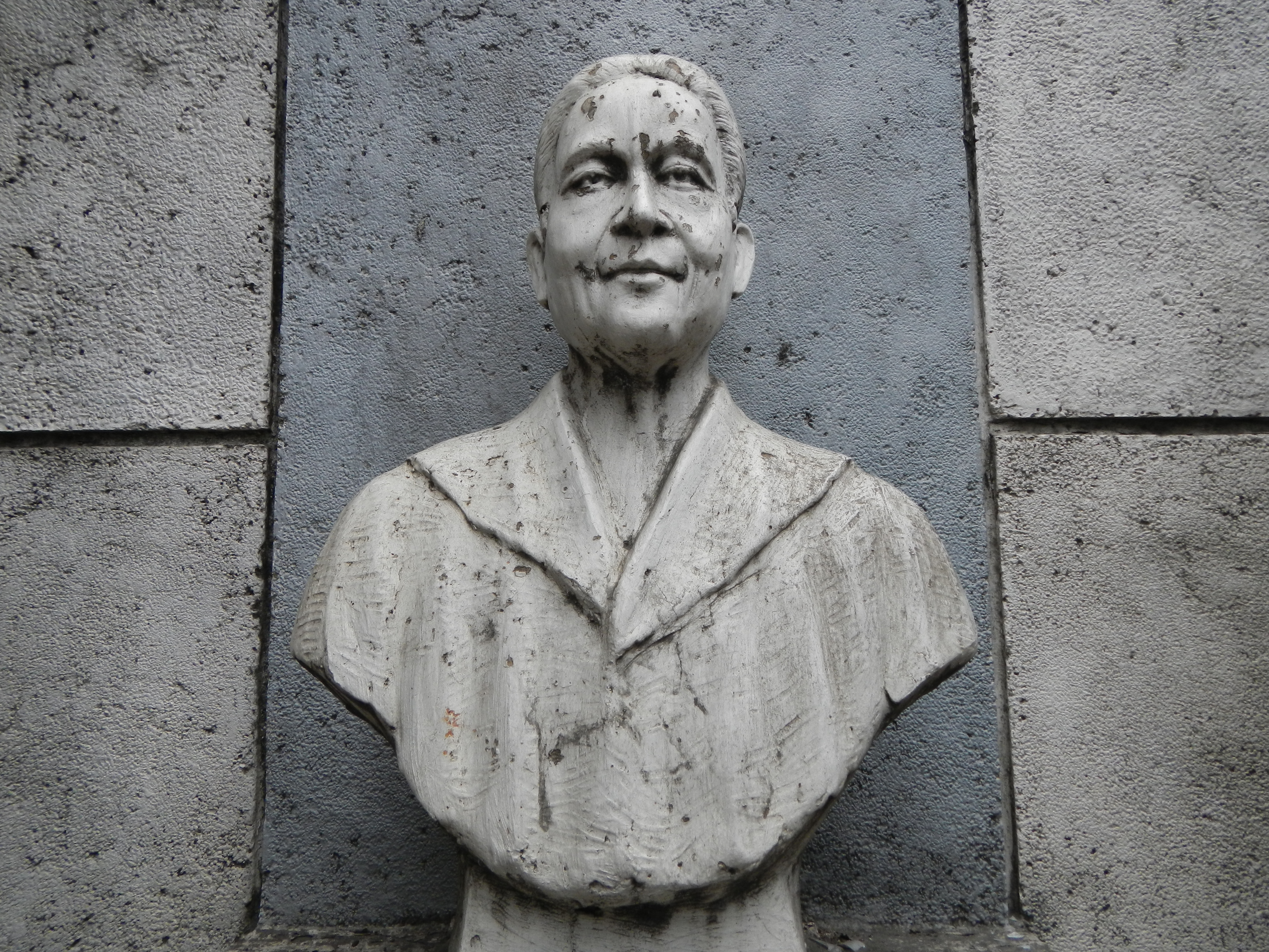 Birthplace of Gregorio Sanciangco Memorial a lawyer, economist and a writer wrote the first treatise of economics of the Philippines, and, was also a member of Rizal’s reform movement in Longos, Malabon City.